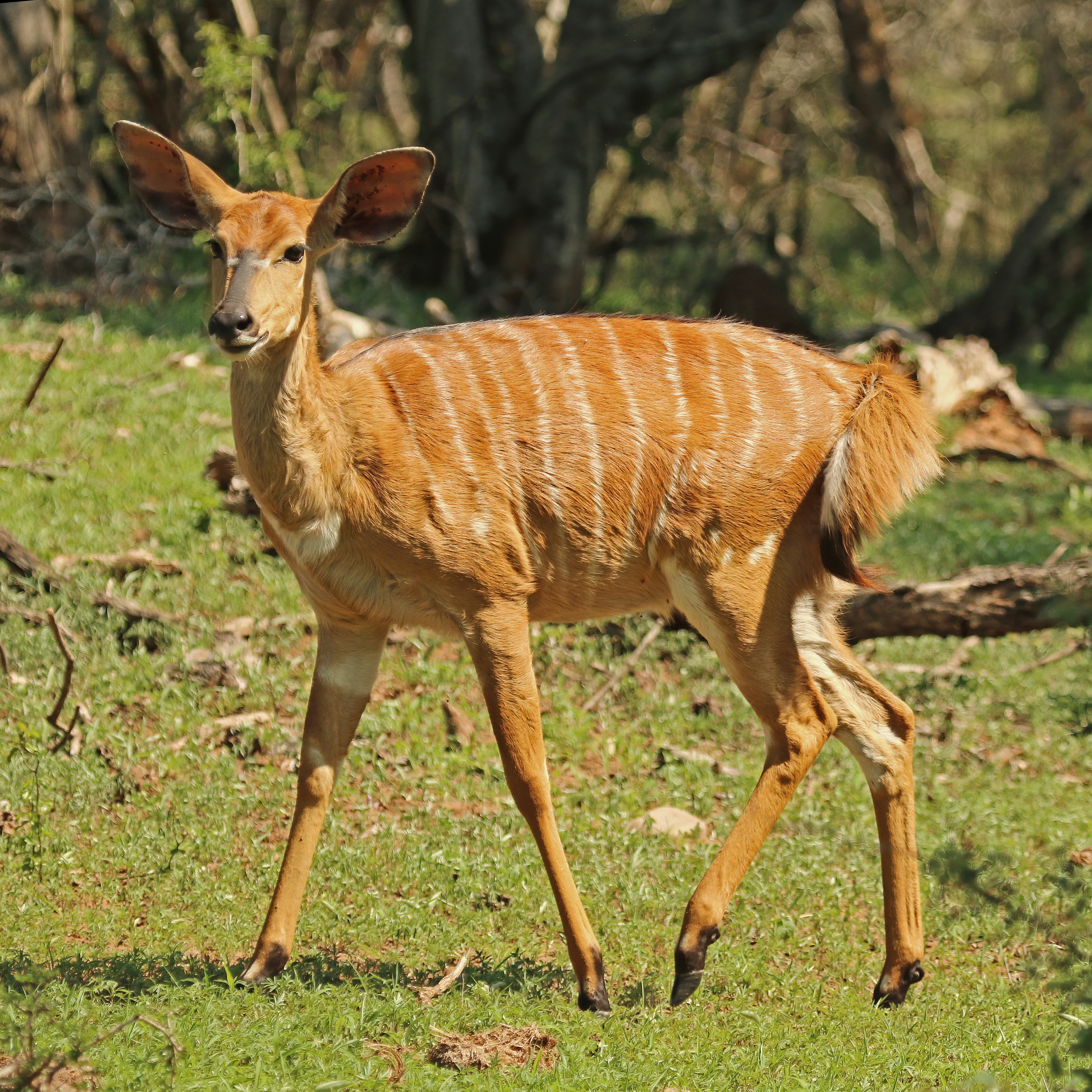 Nyala (Nyala angasii) female, uMkhuse Game Park, KwaZulu Natal